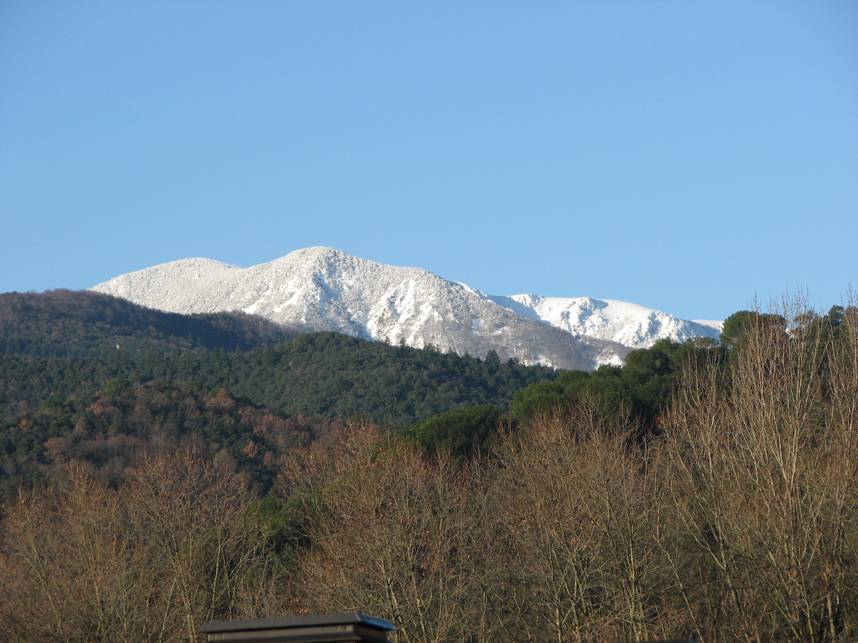 Snowy Matagalls (Montseny) seen from Arbúcies, La Selva, Principat de Catalunya, Països Catalans.